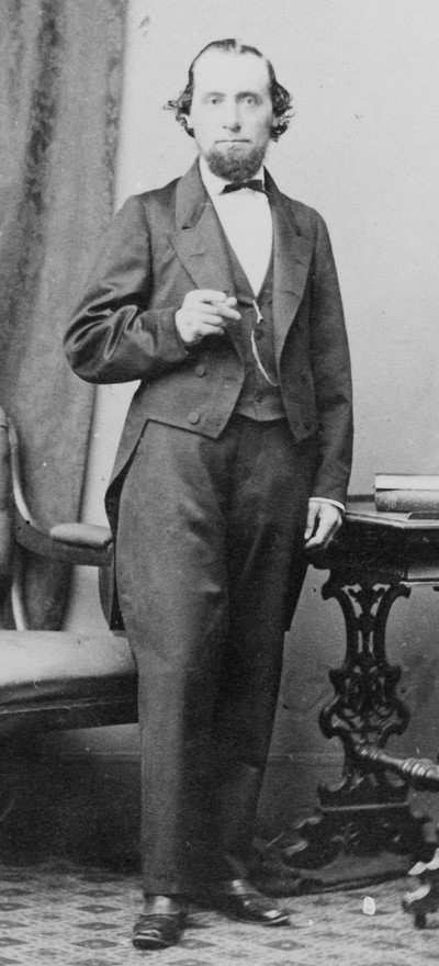 Cropped from